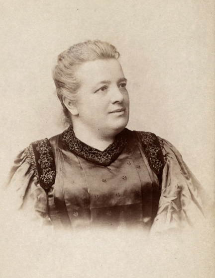 Portrait of Austrian writer Auguste Groner (1850–1929)